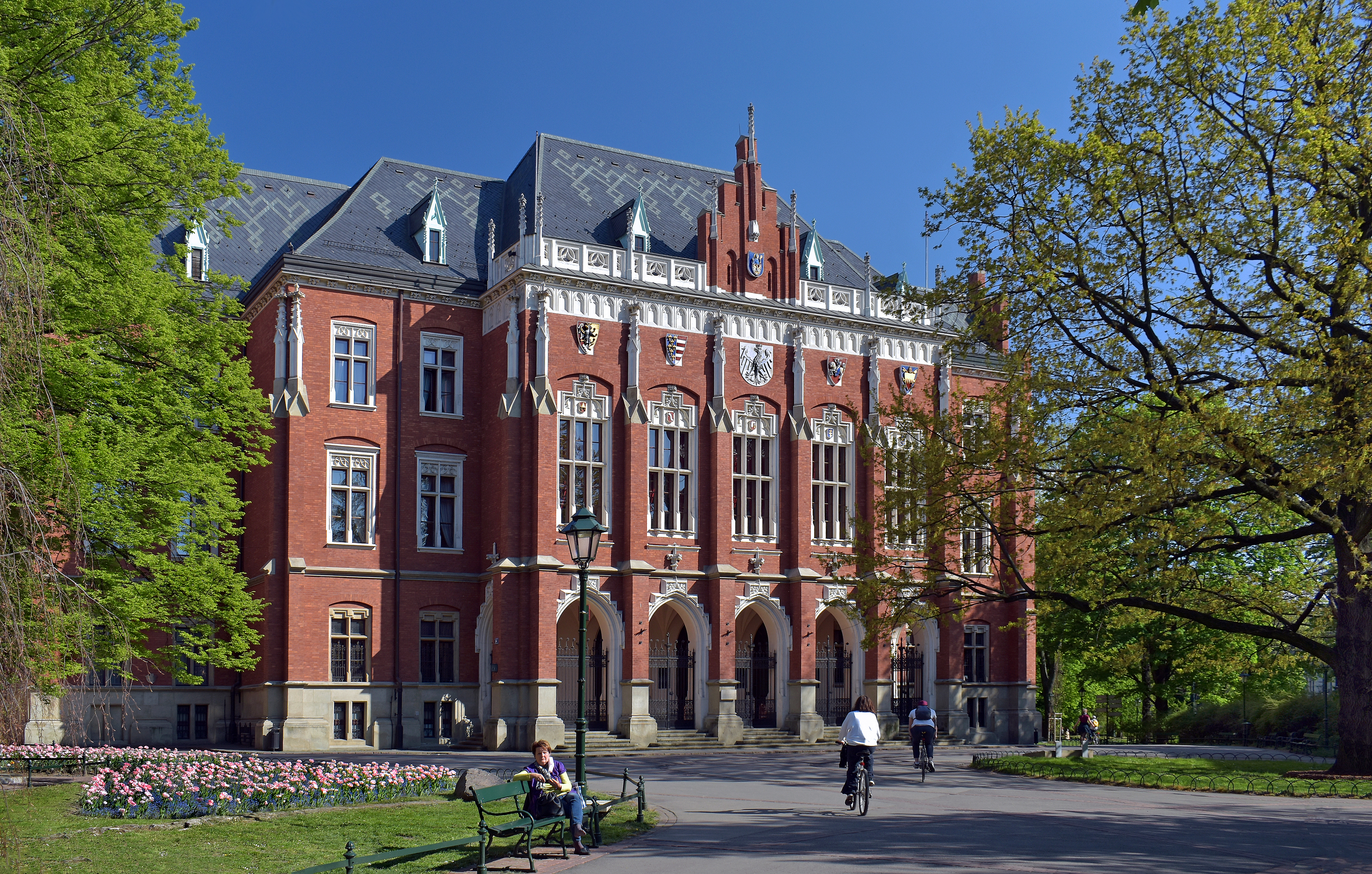 Jagiellonian University Collegium Novum, 1882 designed by Feliks Księżarski, 24 Gołębia street, Old Town, Krakow, Poland